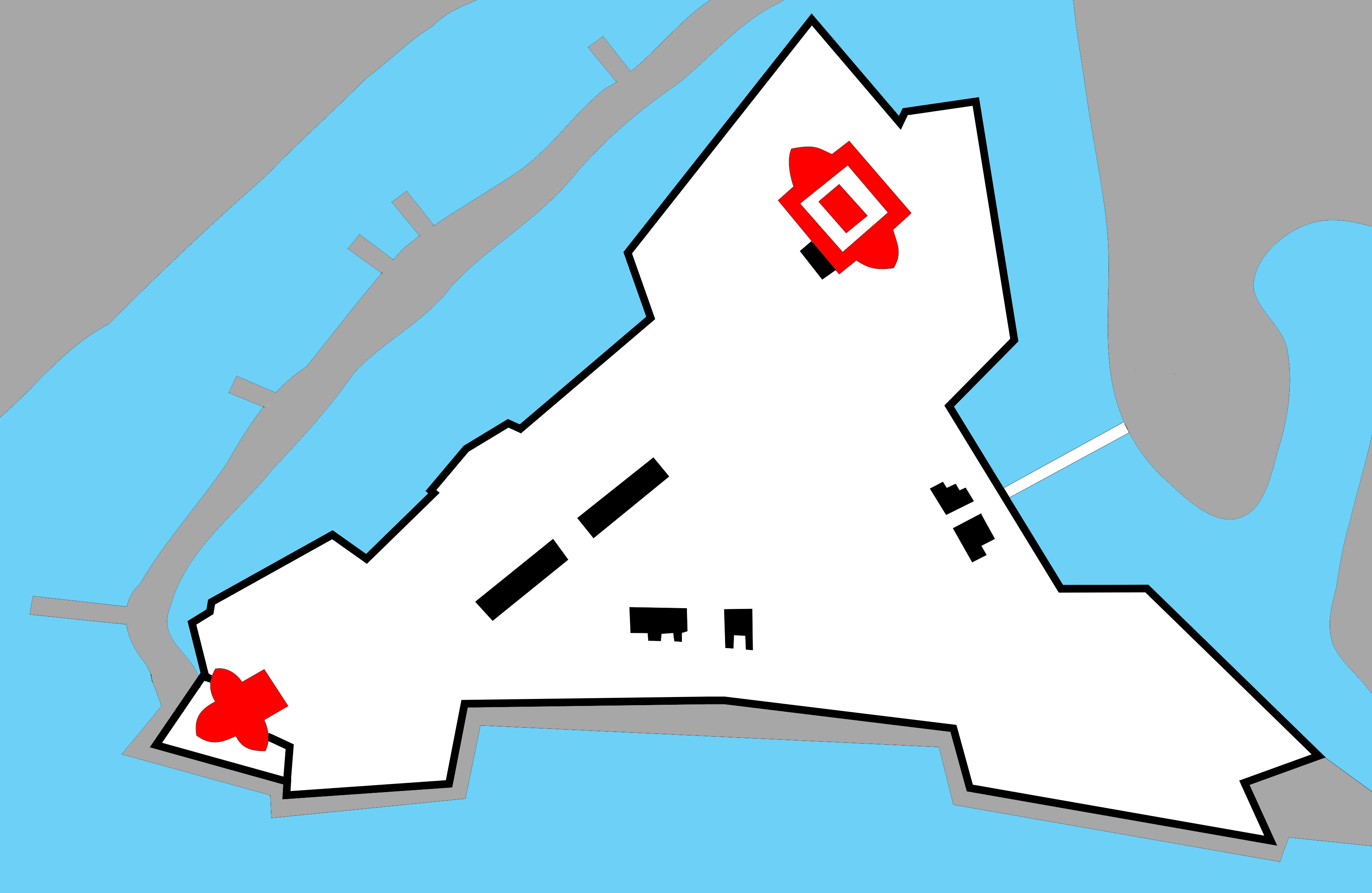 Hull Citadel schematic, after 1776 plan - castle and blockhouse marked in red